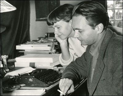 Stig Dagerman och his wife Anita Björk a few years before his death.